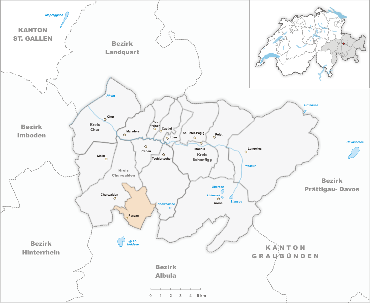 Municipality Parpan